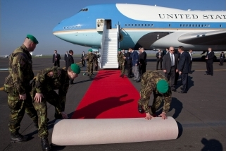 Deploying of red carpet from Air Force One.